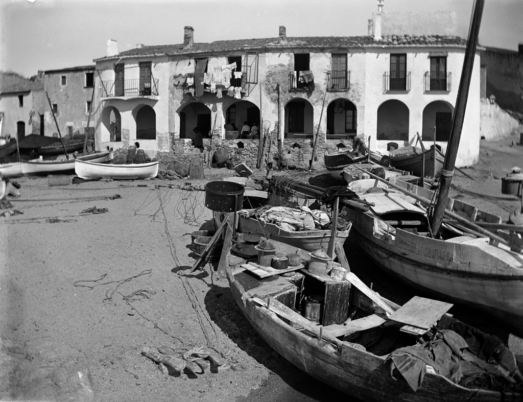 Calella de Palafrugell's (Catalonia) Port Bo beach. Picture By Baldomer Gili Roig (Lleida, 1873 - Barcelona, 1926)